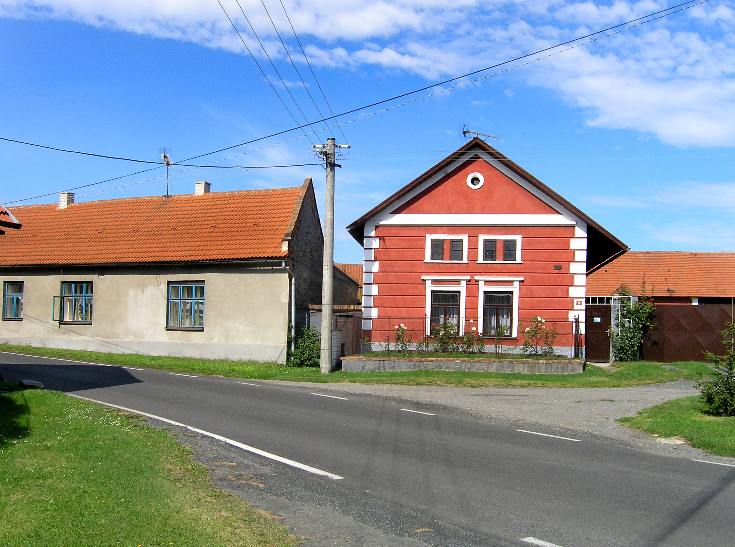 Common in Horní Chvatliny, part of Dolní Chvatliny village, Czech Republic